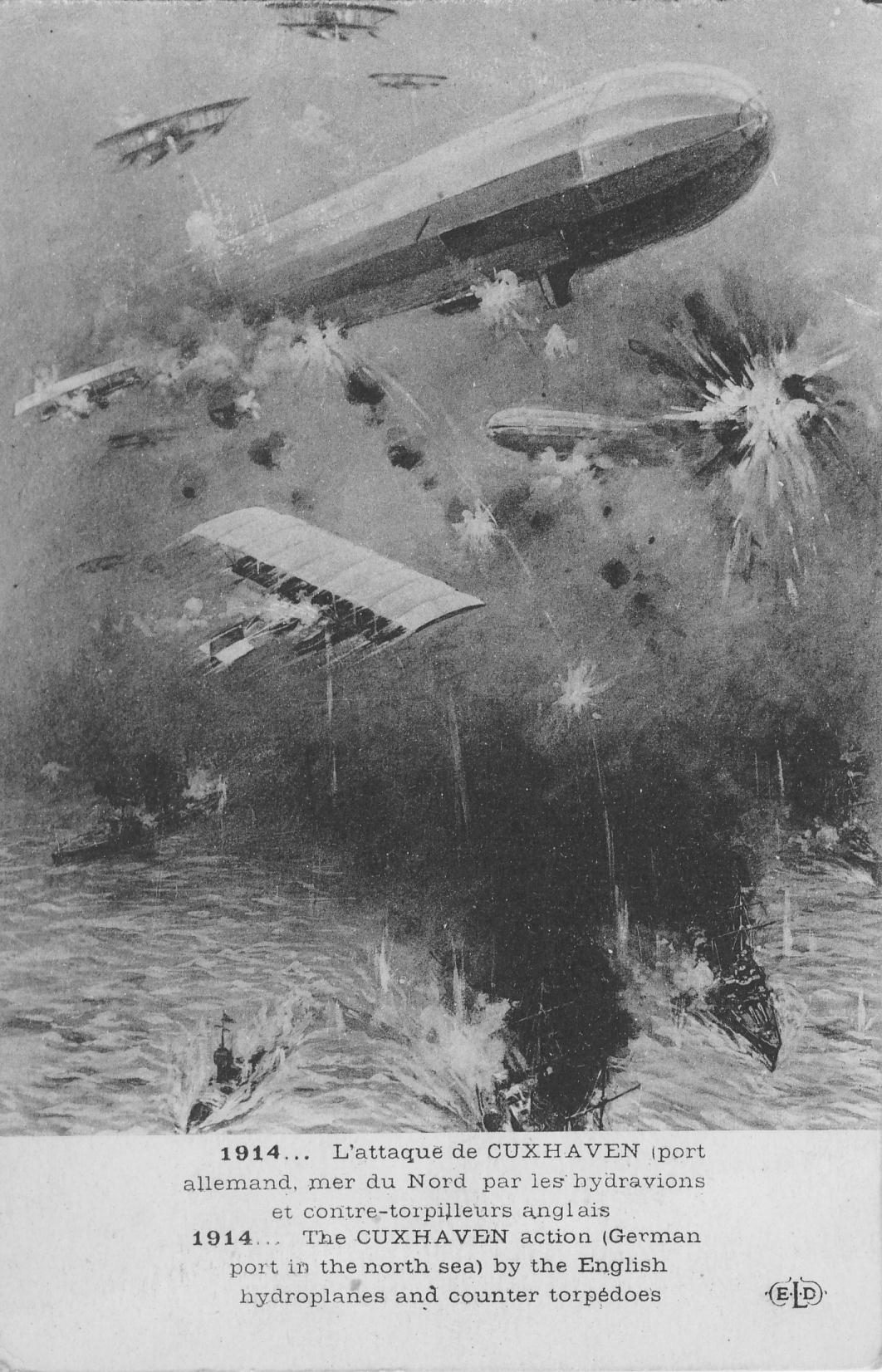 Artist's impression of the Cuxhaven raid, 25 Dexcember 1914